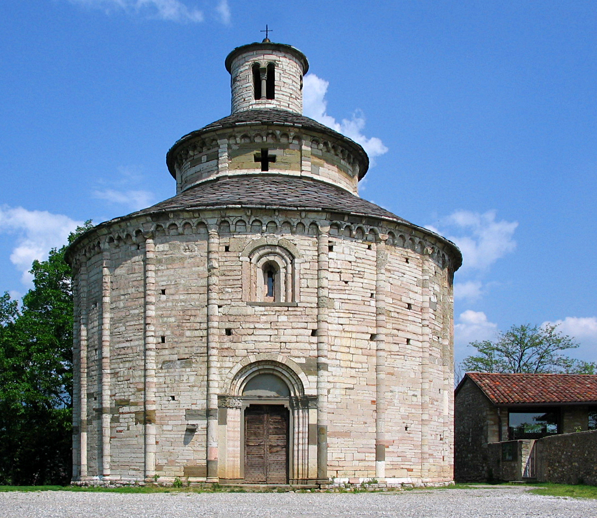 Almenno San Bartolomeo, Bergamo, Lombardy, Italy – Rotonda di san Tomè